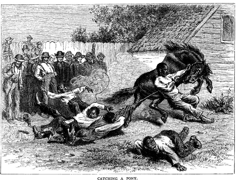 "Catching a Pony" sketch of the pony penning at Chincoteague, Virginia, 1876